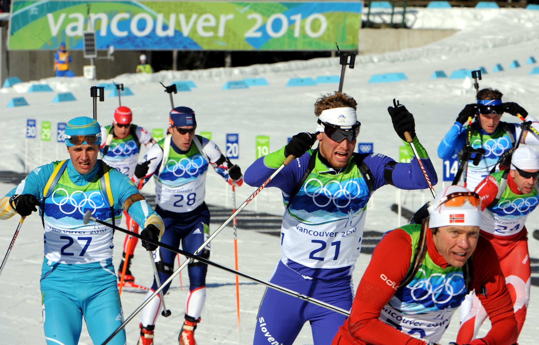 Army biathlete Sgt. Jeremy Teela (bib #28) and other competitors in the 2010 Winter Olympics men's 15-kilometer mass start. #21 Klemen Bauer, #22 Thomas Frei, #24 Tomasz Sikora, #27 Serguei Sednev, #30 Halvard Hanevold